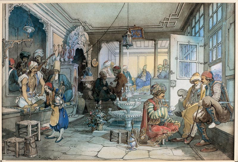 A cafe in Istanbul Watercolour, Ottoman Empire